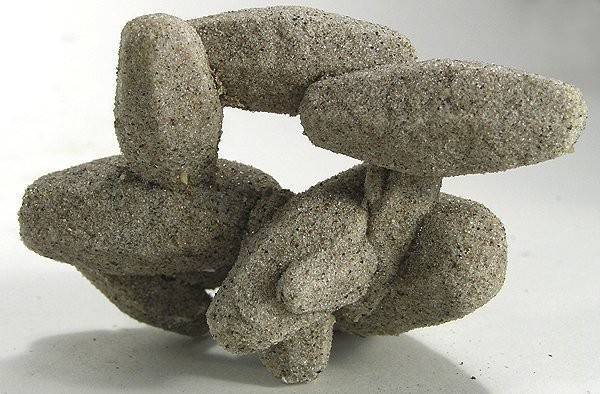 Calcite Locality: Rattlesnake Butte, Jackson County, South Dakota, USA (Locality at ) Size: 6.9 x 5.4 x 3.9 cm. Gary Hansen self-collected these unusual specimens in South Dakota in the 60s - very sculptural and beautiful floater clusters of calcite crystals, delicately intergrown, included by grains of sand so that they look almost like stone sculptures! This one is out of the collection of noted California collector Charles Hansen (no relation).